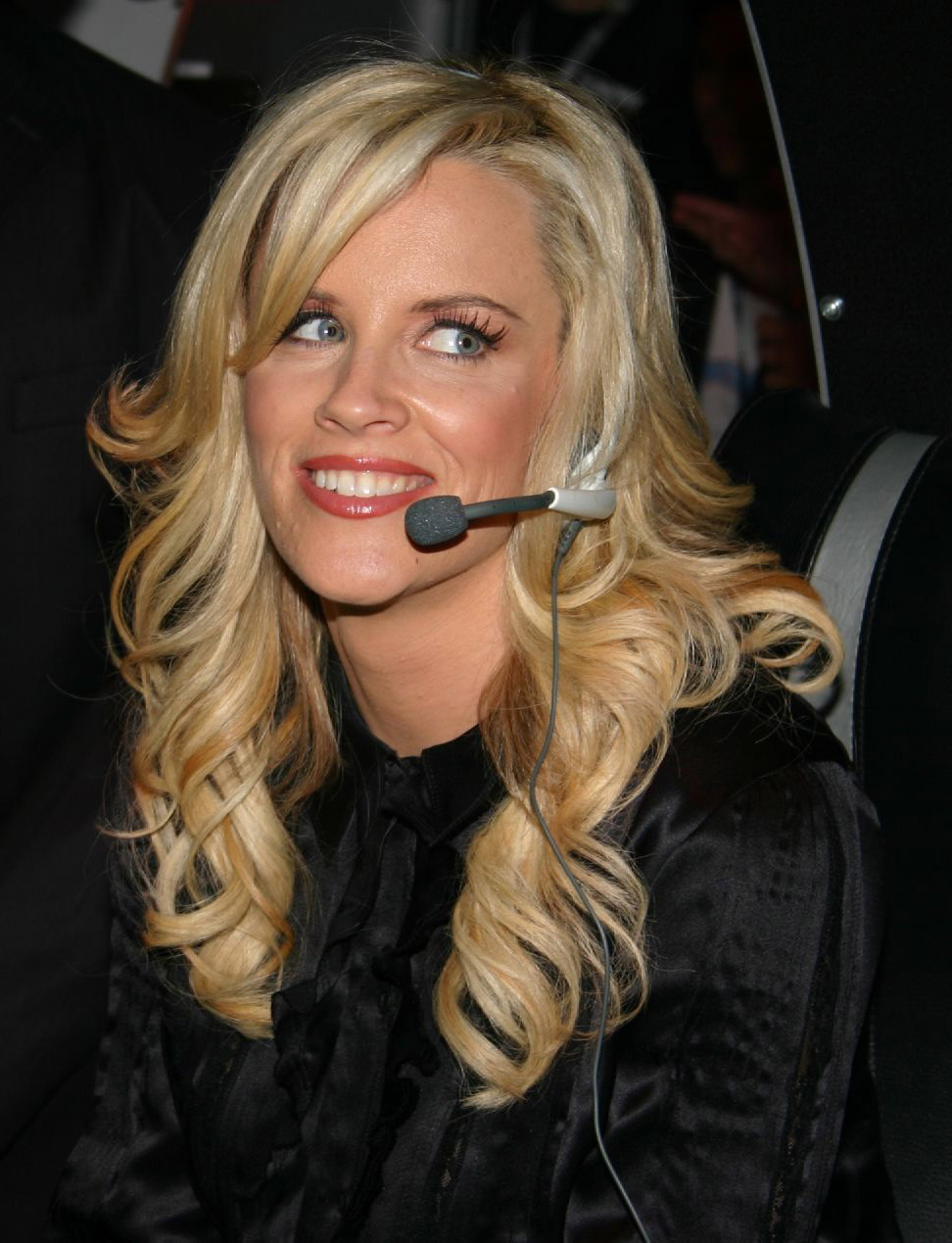 Jenny McCarthy at E3 2006.